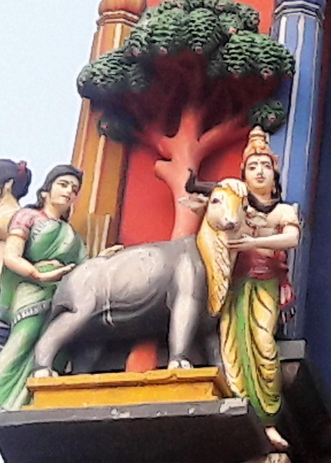 Adhi Ratneswarar Temple, Thiruvadanai